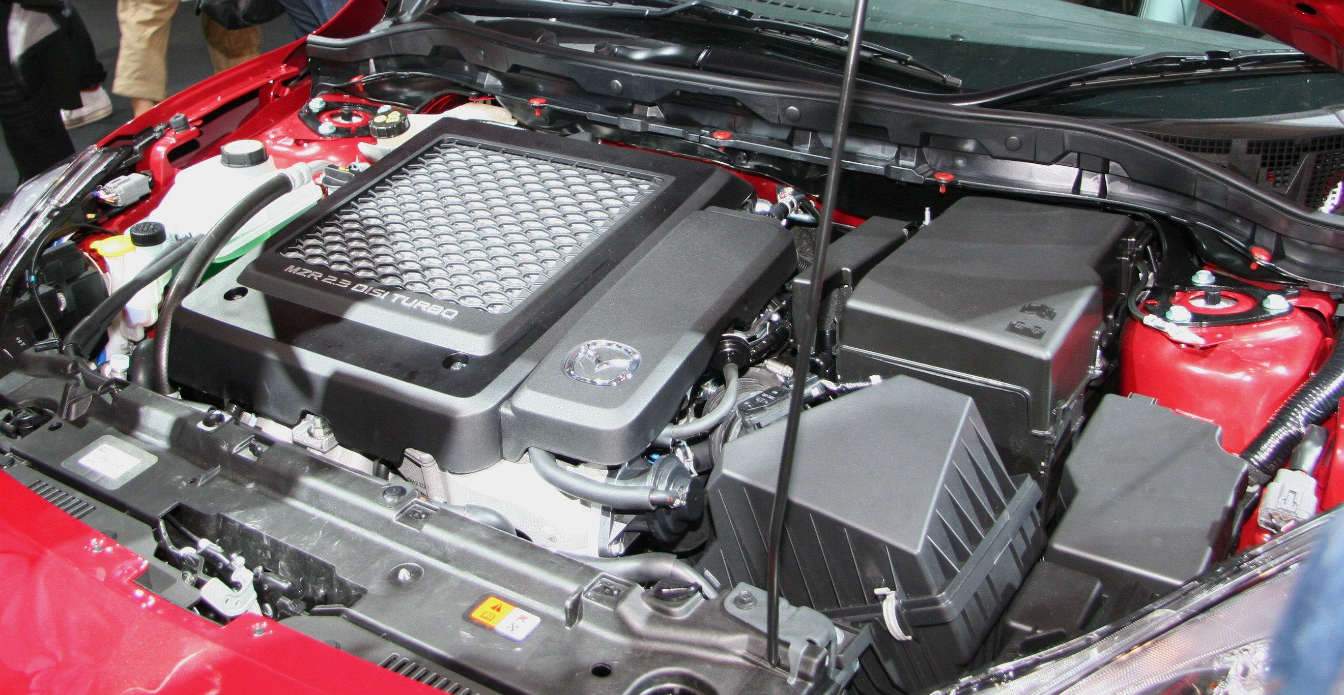 Mazda L3-VDT (Mazda Speed Axela)